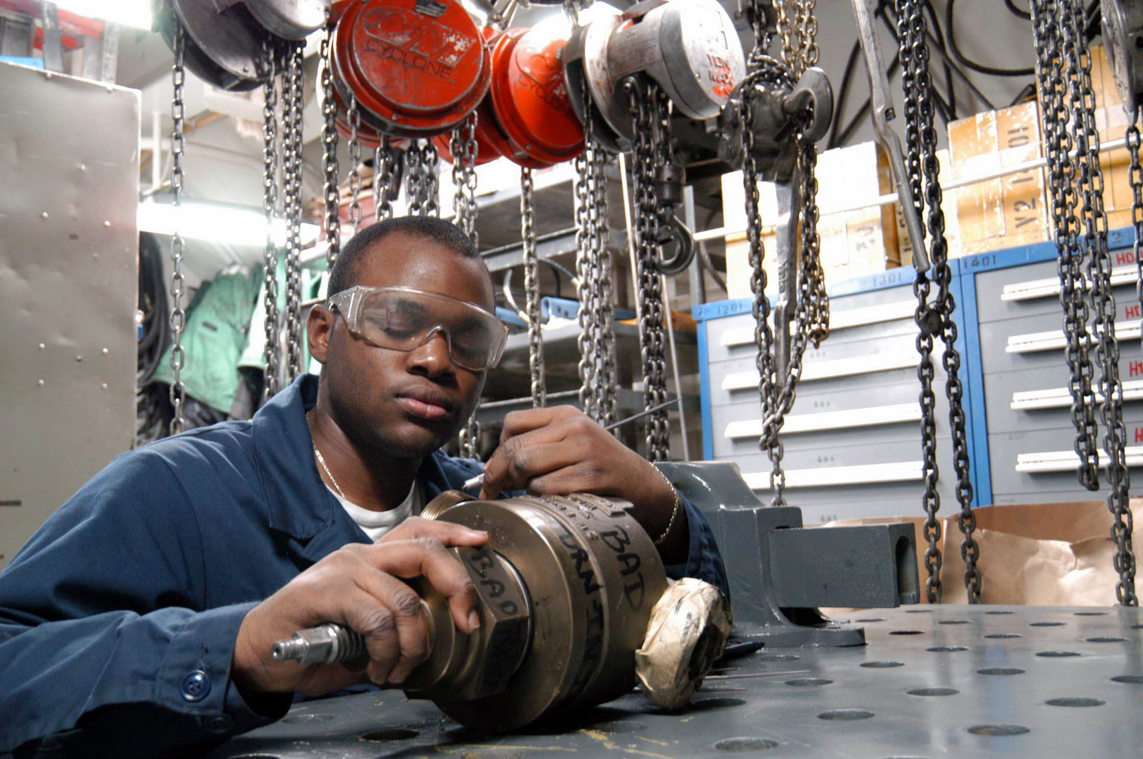 The Arabian Gulf (Mar. 06, 2002) -- Airman Nathaniel Holmes Jr. from Chicago, Ill., conducts maintenance on a catapult hydraulic valve aboard USS Abraham Lincoln (CVN 72). The Lincoln and Carrier Air Wing Fourteen (CVW-14) are conducting combat operations in support of Operation Southern Watch. U.S. Navy photo by Photographer's Mate Airman Bernardo Fuller. (RELEASED)